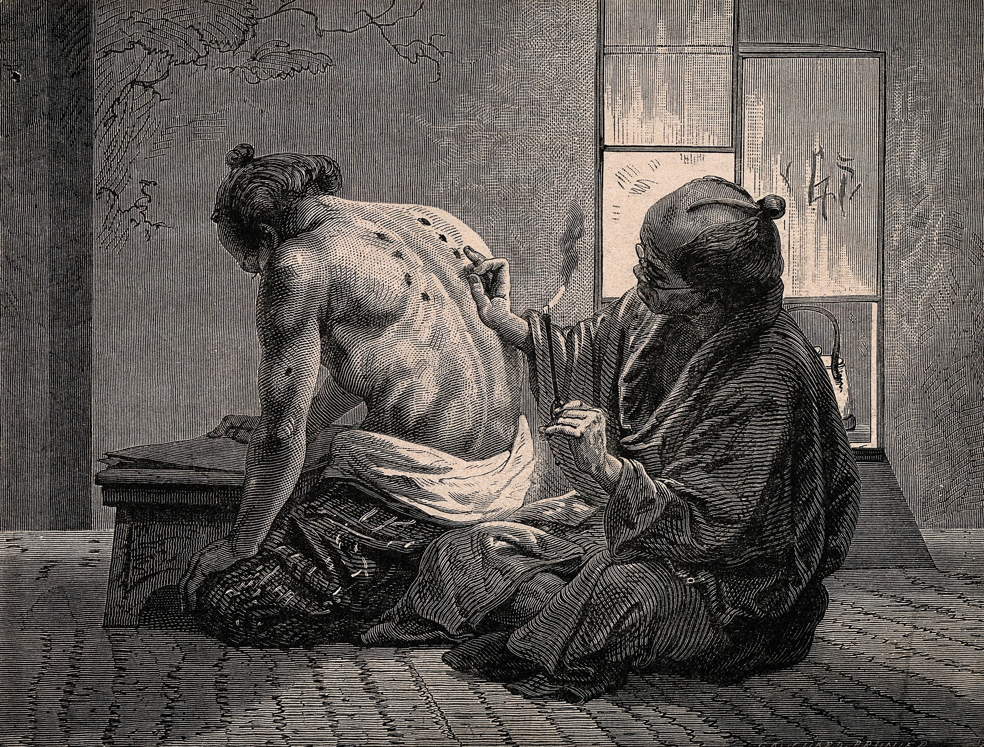 A Japanese physician applying moxa (a substance produced from leaves of various wormwoods) as a cautery: igniting it on the skin of a patient's back. Wood engraving. Iconographic Collections Keywords: WORMWOOD; Gauchard Brunier; japanese physician; moxabustion; ALTERNATIVE MEDICINE; Artemisia